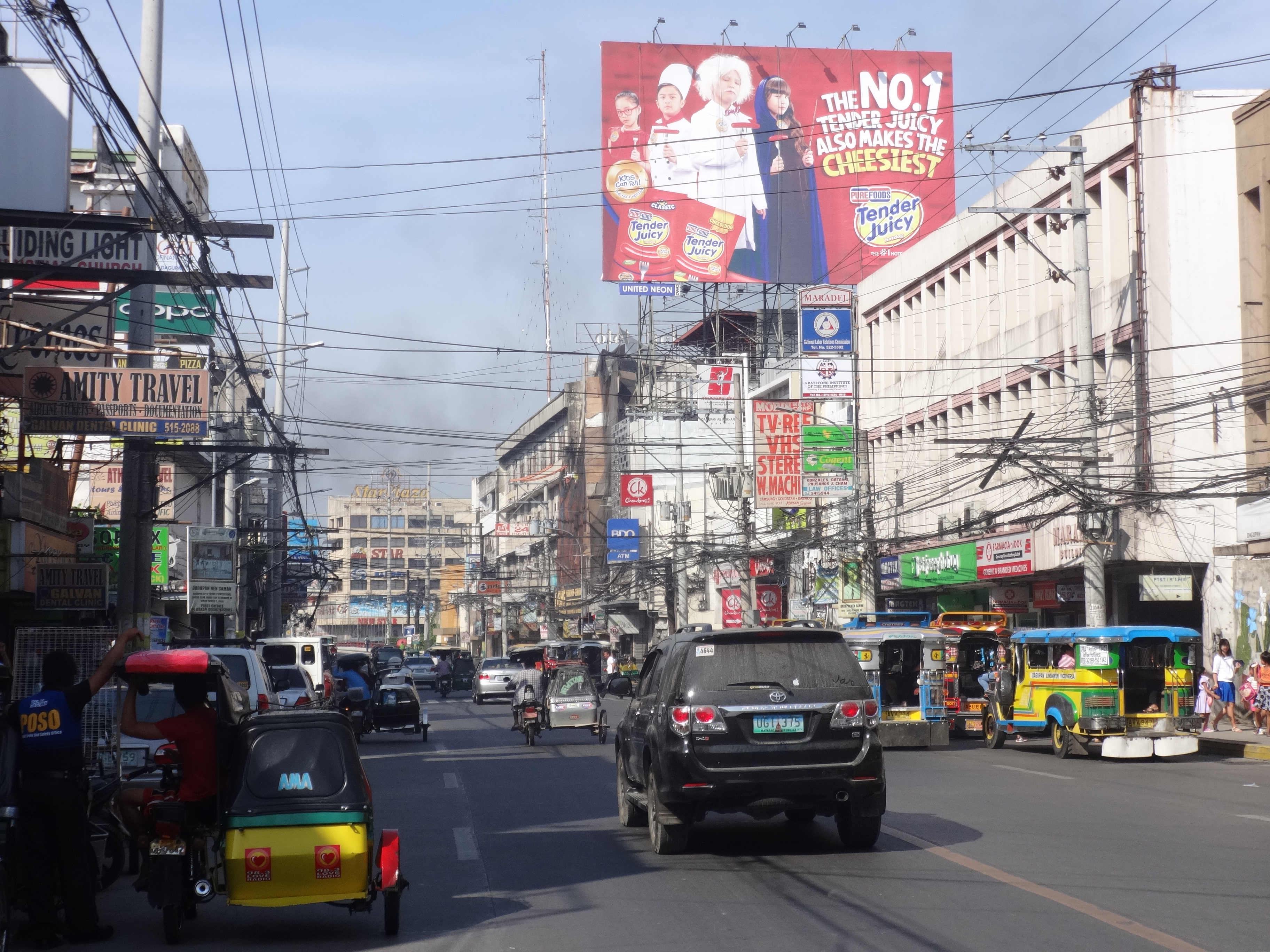 A.B. Fernandez Avenue in Downtown district, Dagupan, Pangasinan